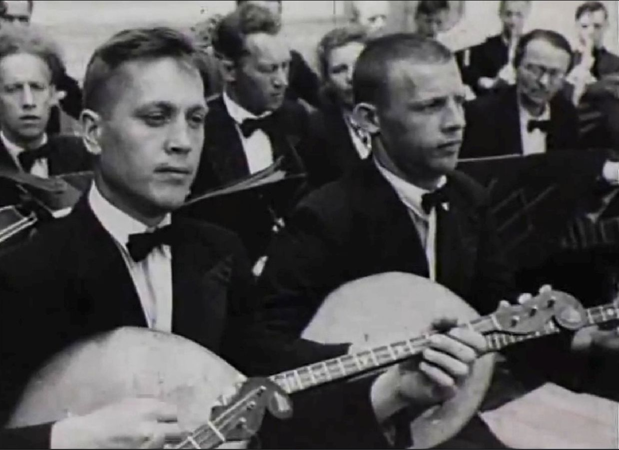 1943 newsreel footage of the Osipov State Russian Folk Orchestra, performing on Russian folk instruments in the liberated Stalingrad (now Volgograd) following the Battle of Stalingrad during the Great Patriotic War (WWII)